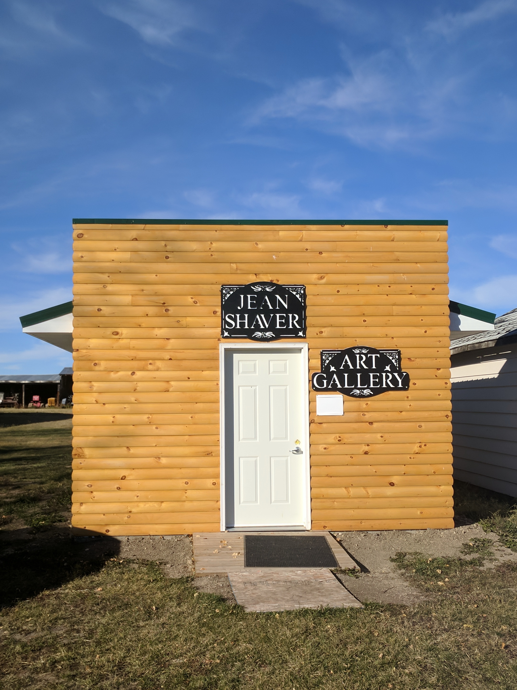 Front of Jean Shaver Art Gallery, Ogema SK, Built 2016